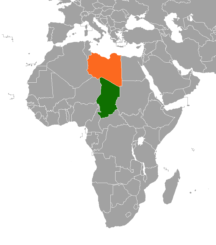 Chad & Libya locator map